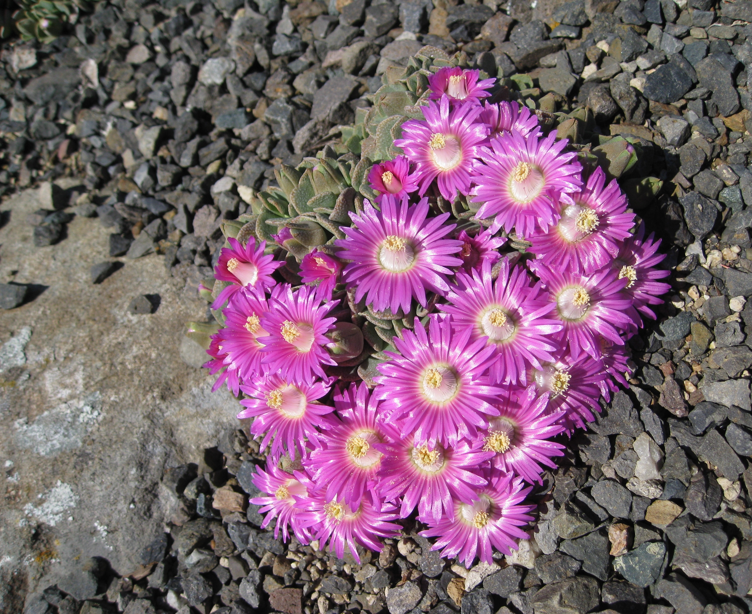 Aloinopsis spathulata